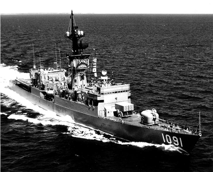 The U.S. Navy frigate USS Miller (DE-1091) underway off Cape Henry, Virginia (USA), 20 May 1974.